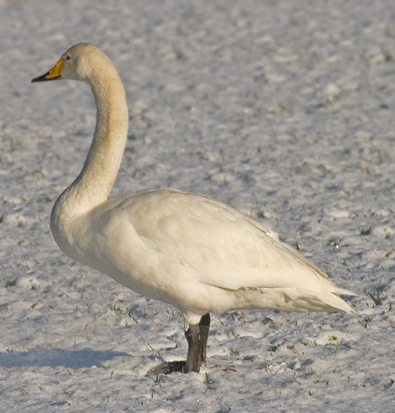 Whooper Swans